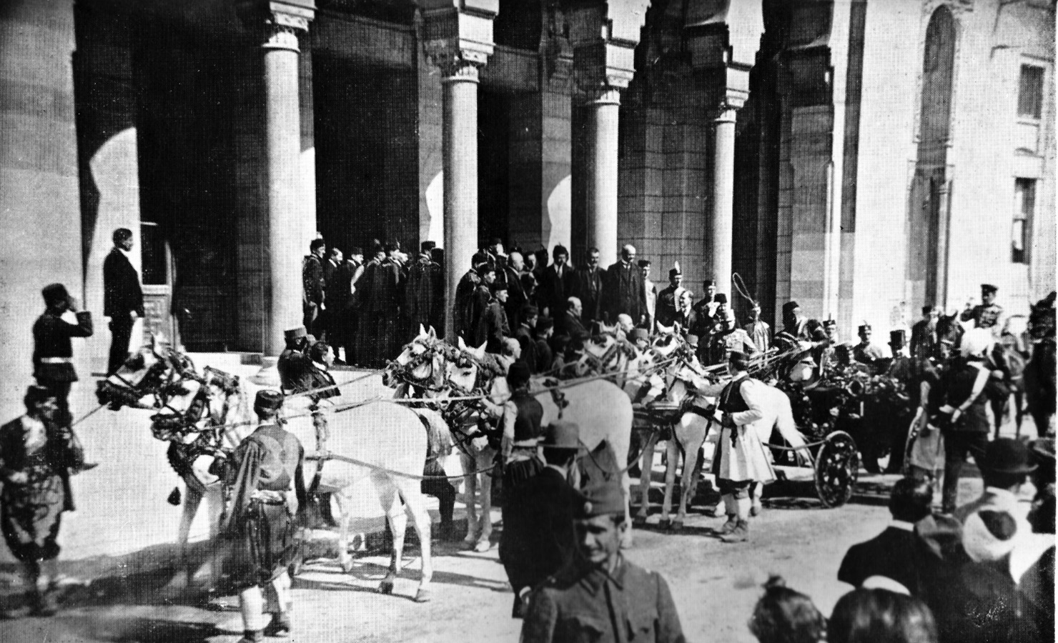 Alexander I of Yugoslavia visits Vijecnica City Hall, Sarajevo